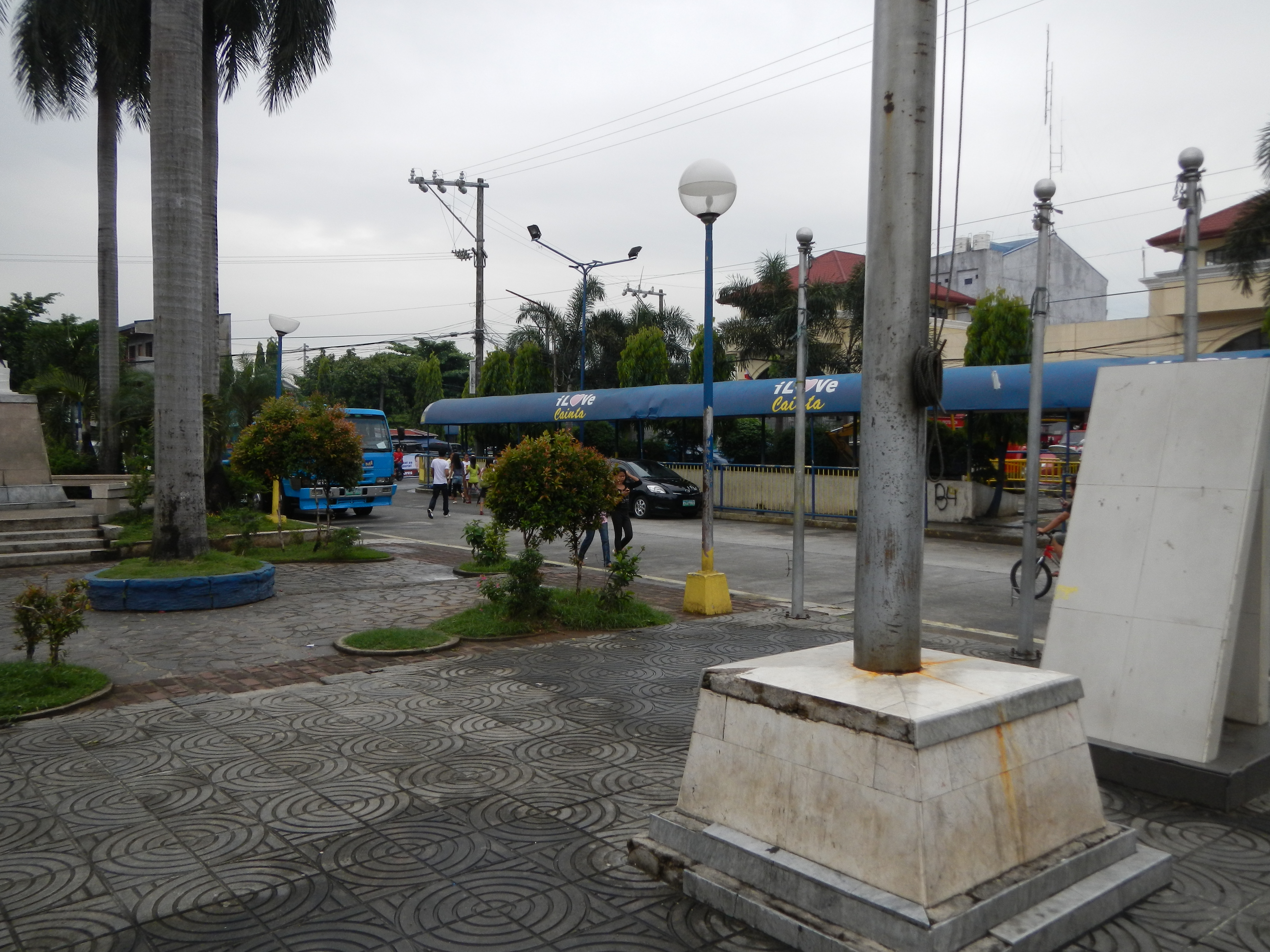 Rarest unedited, original and raw photos of the Municipal Town Hall of [1] Cainta, Rizal[2] (Coordinates: 14°35'36"N 121°7'22"E - Filipino: Bayan ng Cainta: is a first-class urban municipality in the province of Rizal, Philippines. It is one of the oldest - originally founded on August 15, 1571, and is the town with the second smallest land area of 26.81 square kilometres (10.35 sq mi) next to Angono with 26.22 square kilometres or 10.12 sq mi); Francisco P. Felix Monument (Sto. Domingo, Cainta, Rizal) Coordinates: 14°34'47"N 121°6'52"E [3] beside the Cainta Police Station (Sto. Domingo, Cainta, Rizal) [4] Coordinates: 14°34'46"N 121°6'54"E ---------[N.B. May 30, Monday, 2013 Photography of Cainta, Rizal Town Hall and Taytay, Rizal[5]: 80% cloudy and 20% sunny weather using my Nikon AW 100 waterproof shockproof camera. From Bulacan at 10:15 a.m., I took photo at 1:27 pm of Cainta Puregold and Town Hall and reached Taytay, Rizal's Old Town Hall at 2:03 pm; I finished Taytay, Rizal photography at 6:27 p.m., and arrived at Bulacan at 9:30 pm after 3+ hours of travel by bus, and started uploading via slow internet at 10:27 pm - I hereby certify that these raw, original and unedited photos are exclusive for Commons and Wikipedia never uploaded in any Internet or any site, and for the public domain without any condition.]